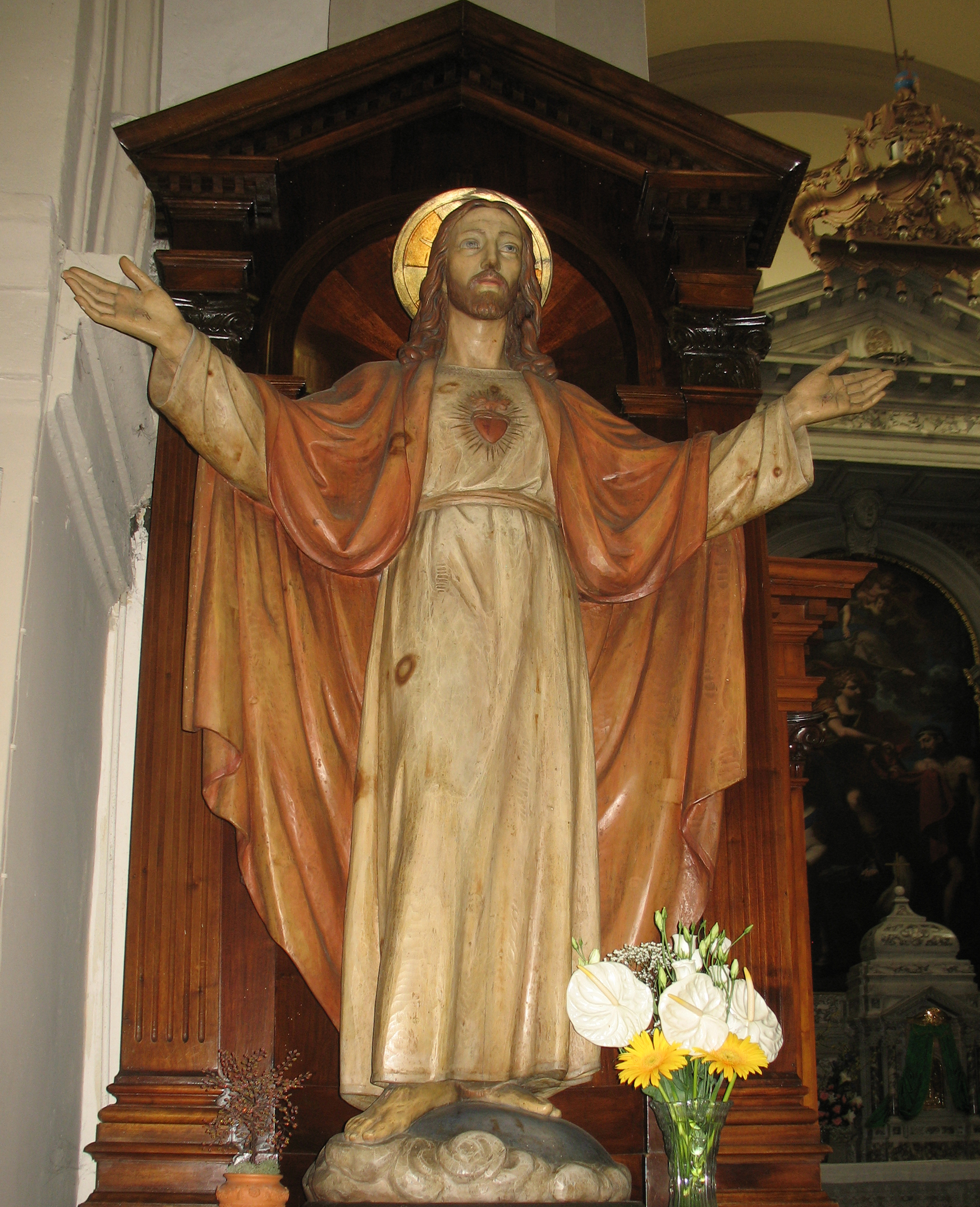 From the parish church of Sambughè (Treviso) - Sculptor Ludwig Moroder